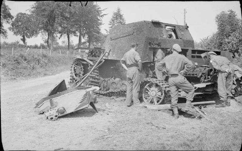 The British Army in Normandy 1944 Troops examine a destroyed German Sturmpanzer IV 'Brumbar' assault gun near Ondefontaine, 6 August 1944.